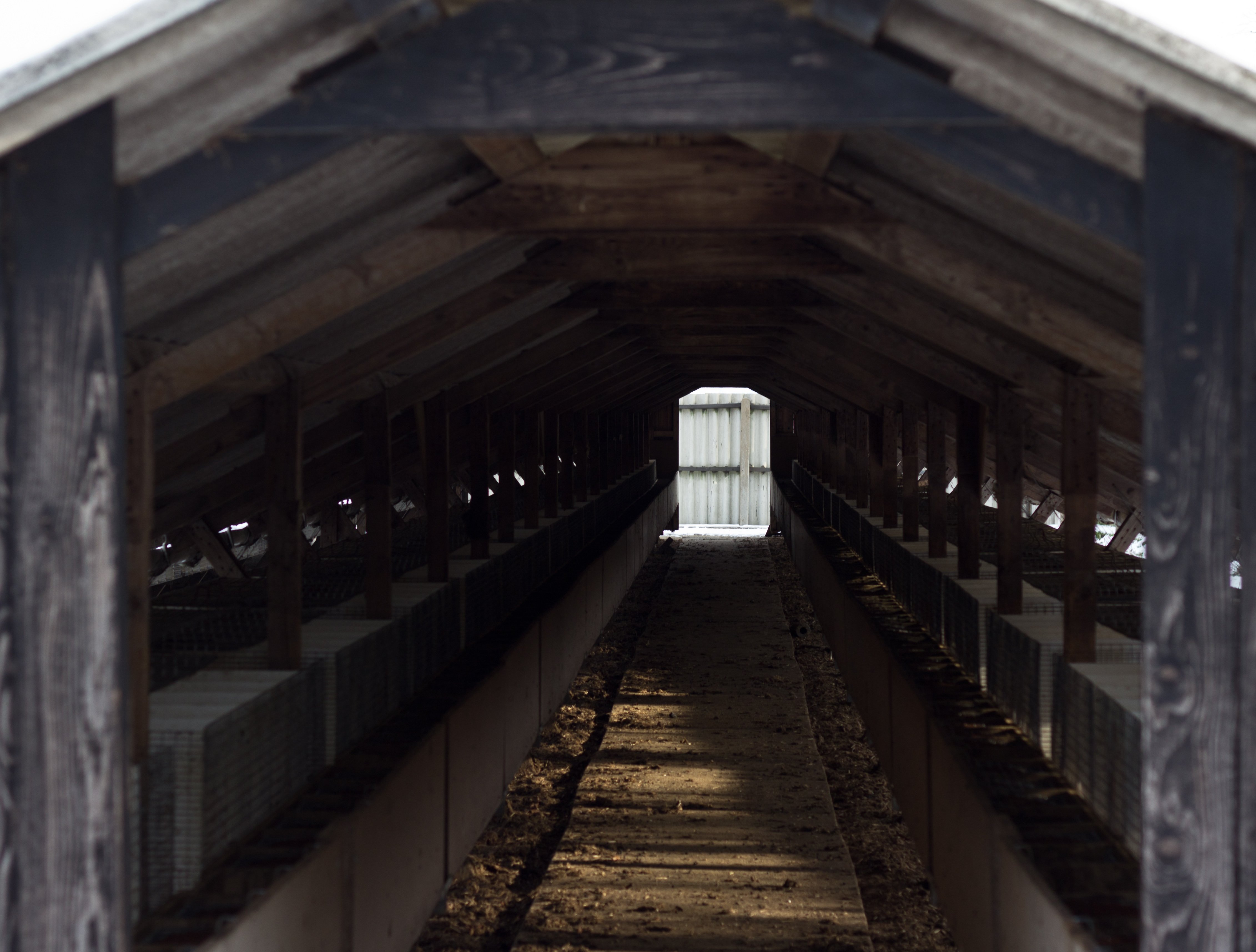 An inside view on one of the many huts of the former mink farm in germany